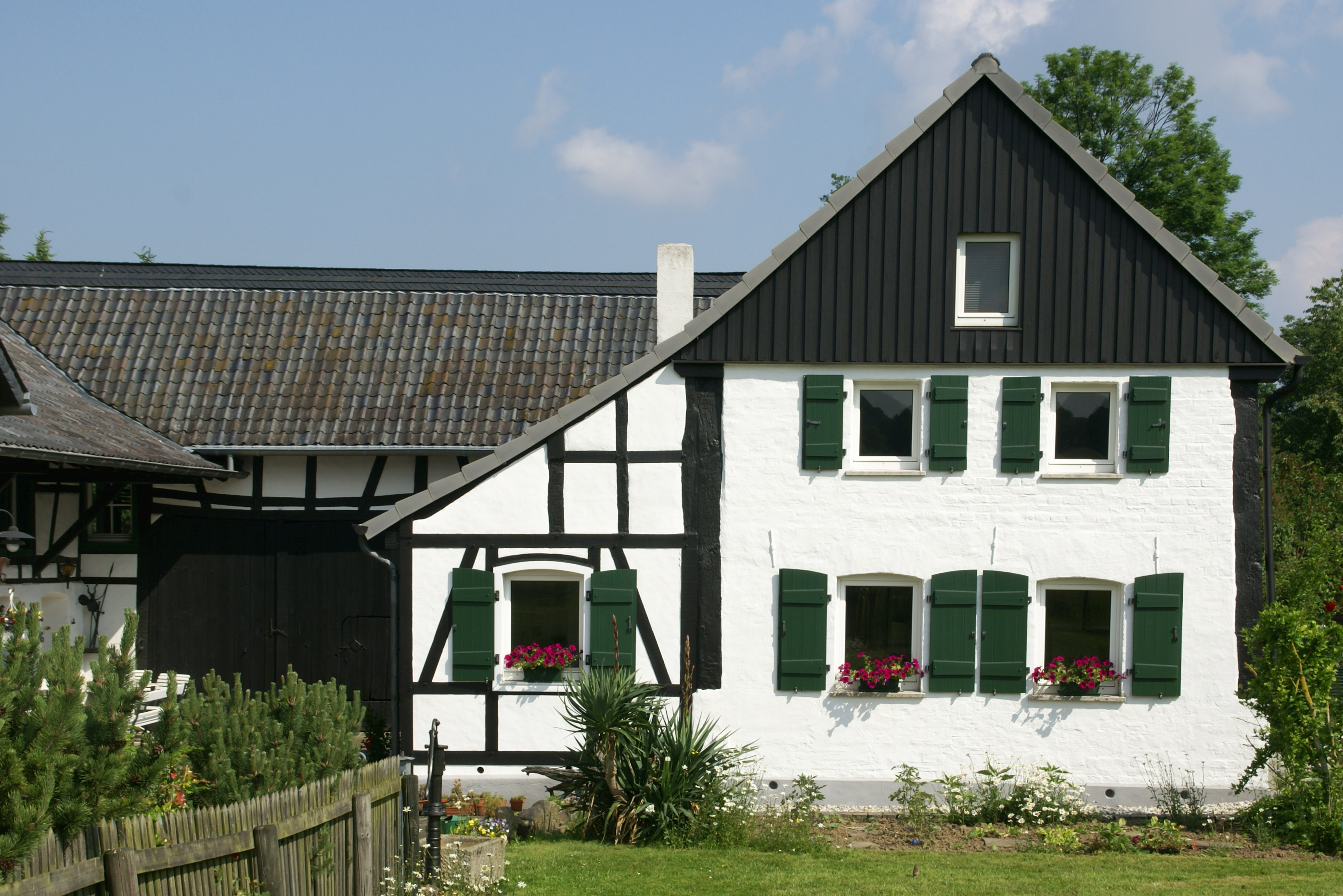 Half-timbered farm in Ruttscheid, Ruttscheider Straße 28